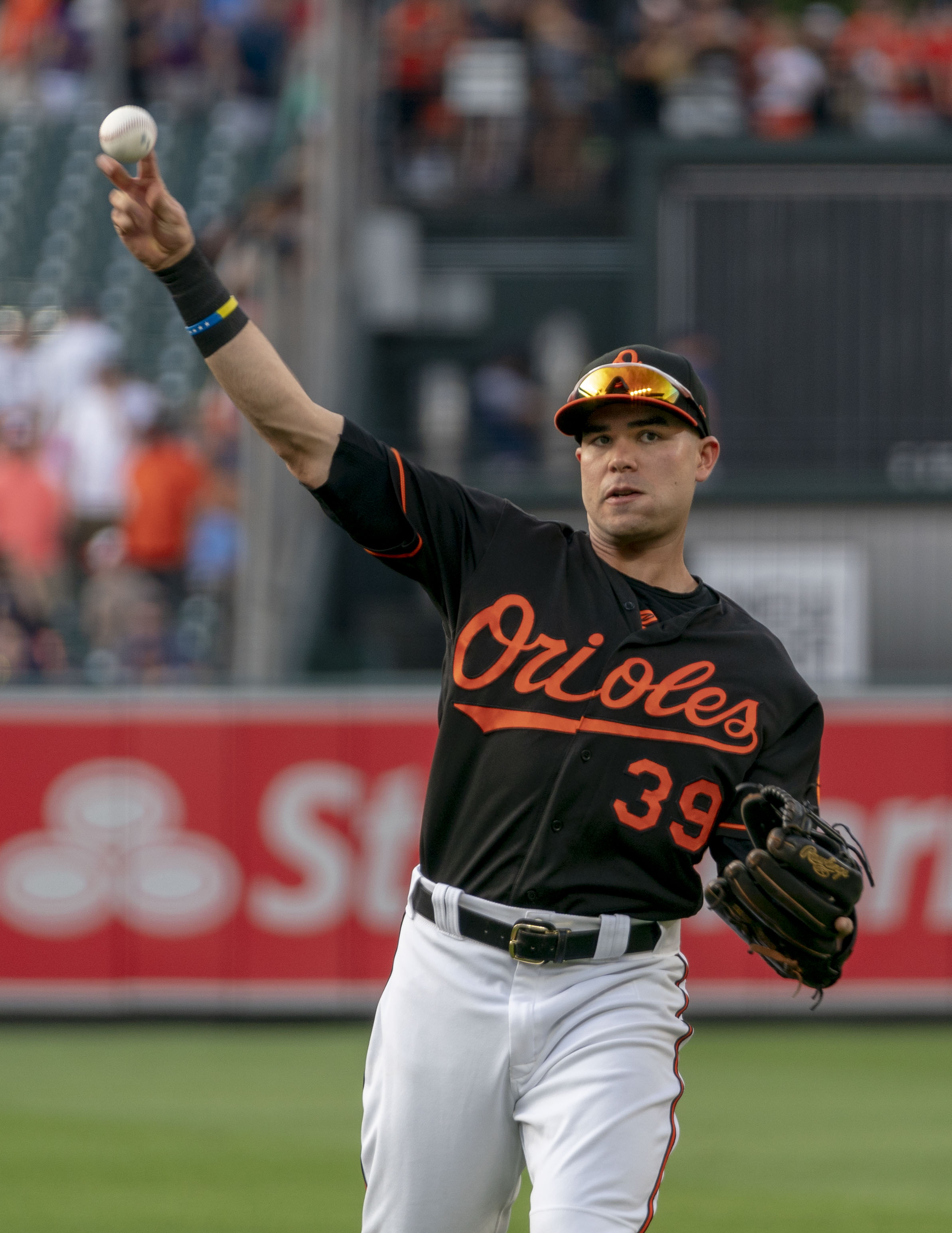 Red Sox at Orioles 8/10/18